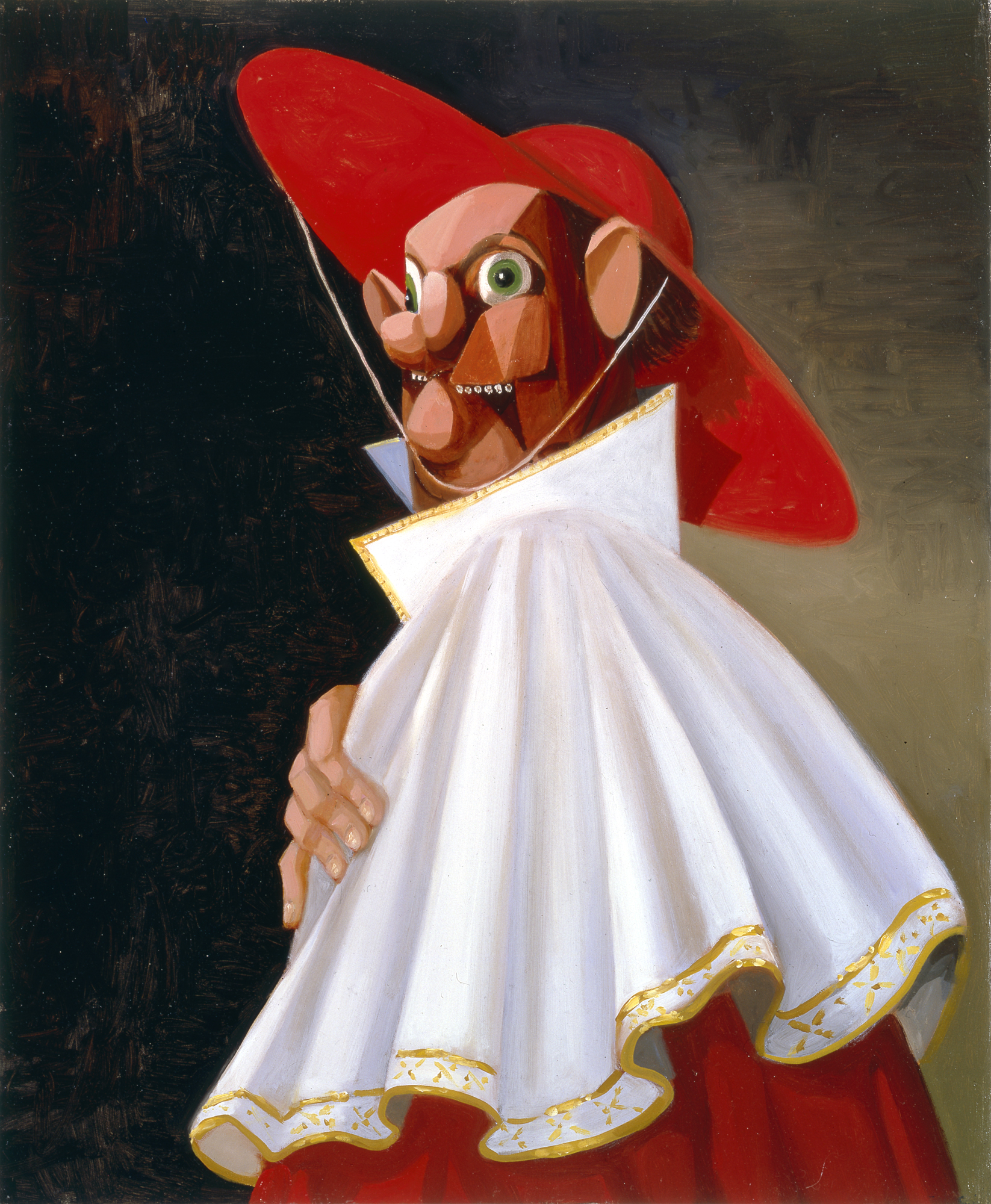 George Condo, The Cracked Cardinal. oil on canvas